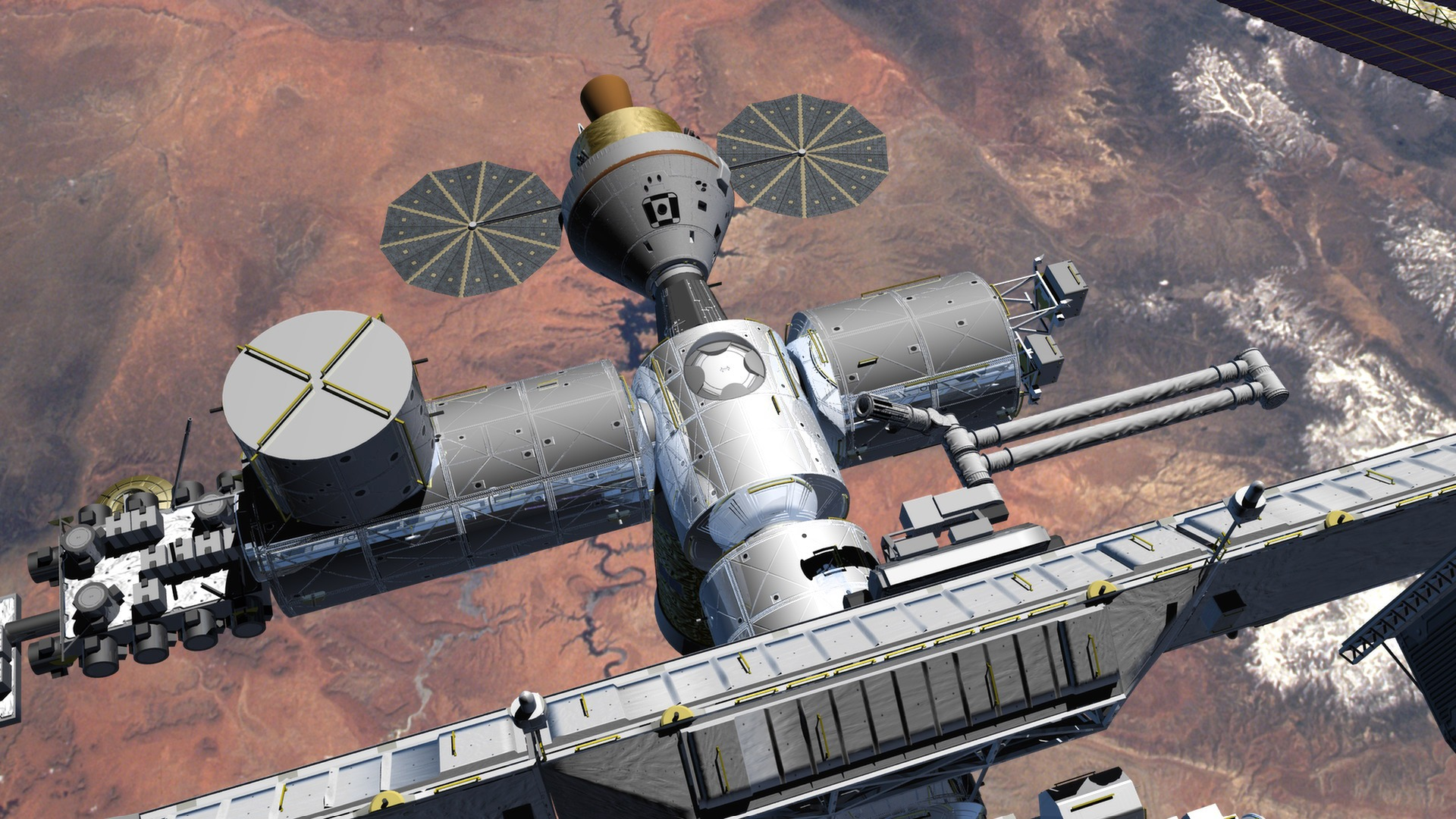 Orion Spacecraft docked to ISS (May 2007)